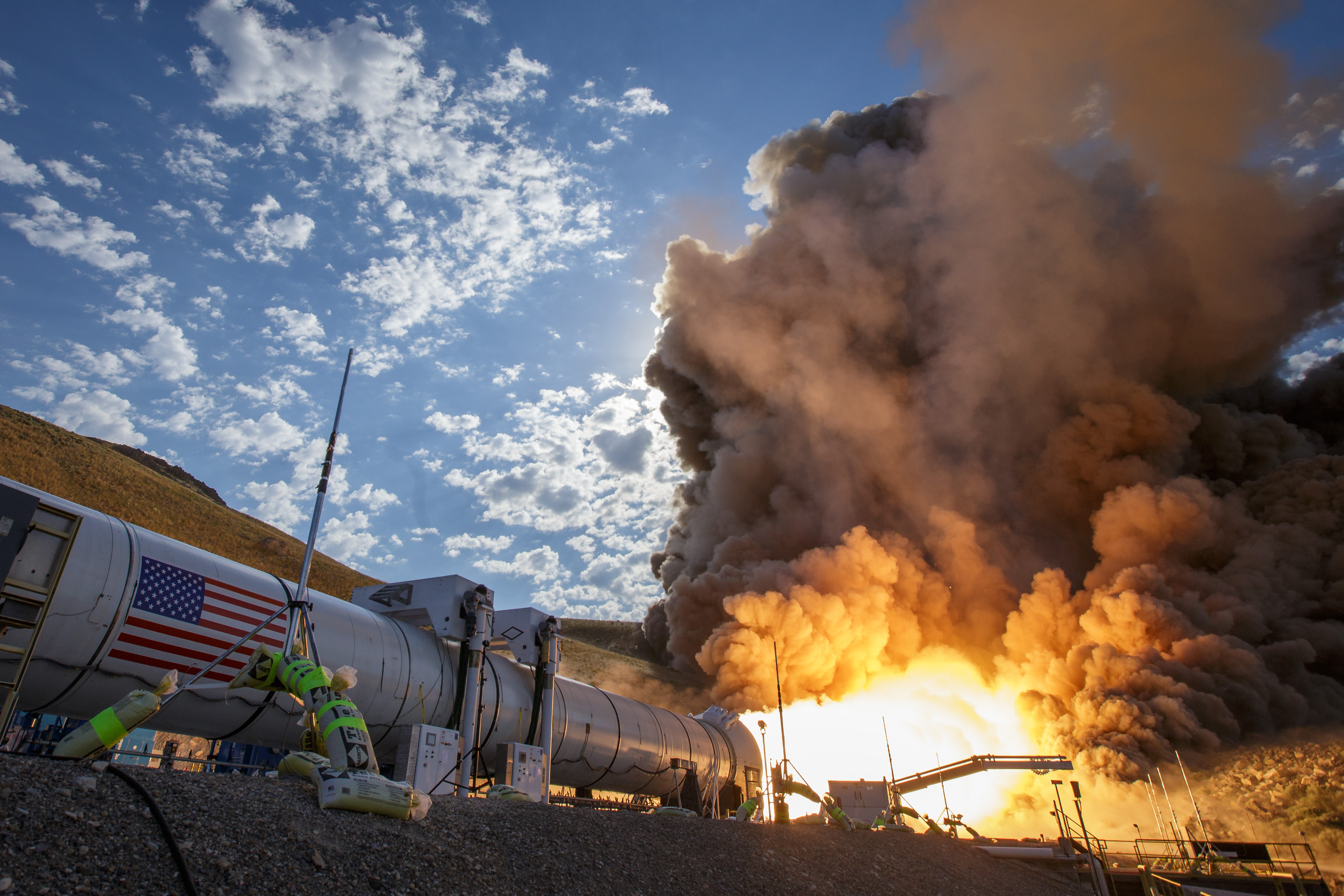 The second and final qualification motor (QM-2) test for the Space Launch System’s booster is seen, Tuesday, June 28, 2016, at Orbital ATK Propulsion Systems test facilities in Promontory, Utah. During the Space Launch System flight the boosters will provide more than 75 percent of the thrust needed to escape the gravitational pull of the Earth, the first step on NASA’s Journey to Mars.